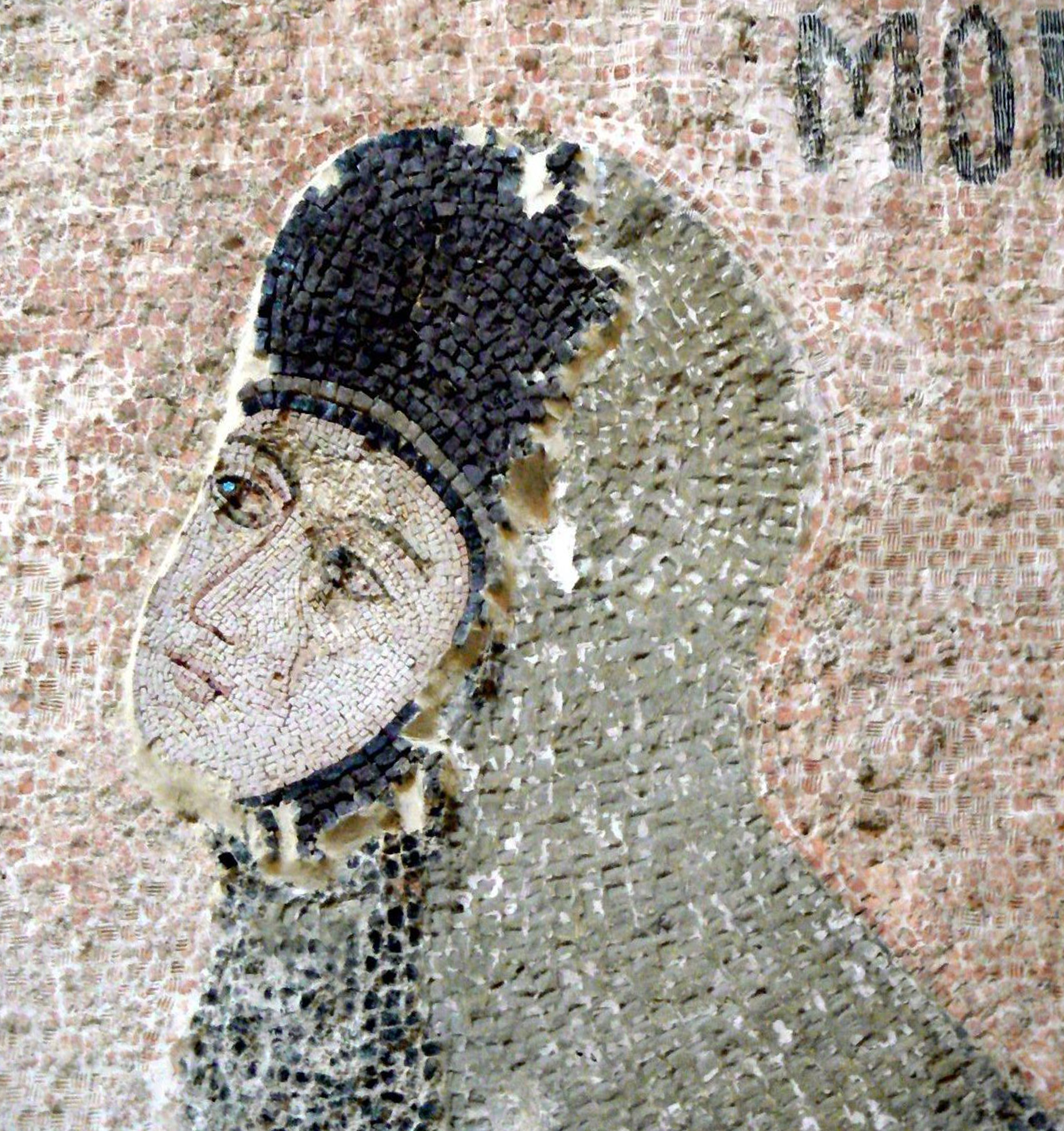 Chora (Kariye) Church Mosaics Kariye Müzesi Mozaikleri Maria Palaiologina, "Mary of the Mongols", illegitimate daughter of Byzantine Emperor Michael VIII Palaiologos. She was married to Mongol Ilkhanate leader Abaqa Khan in the 13th century, and after his death, devoted her life to the church. This is the only known image of Maria, from the lower right of the Byzantine Deesis mosaic in Chora Church, Istanbul (Constantinople)